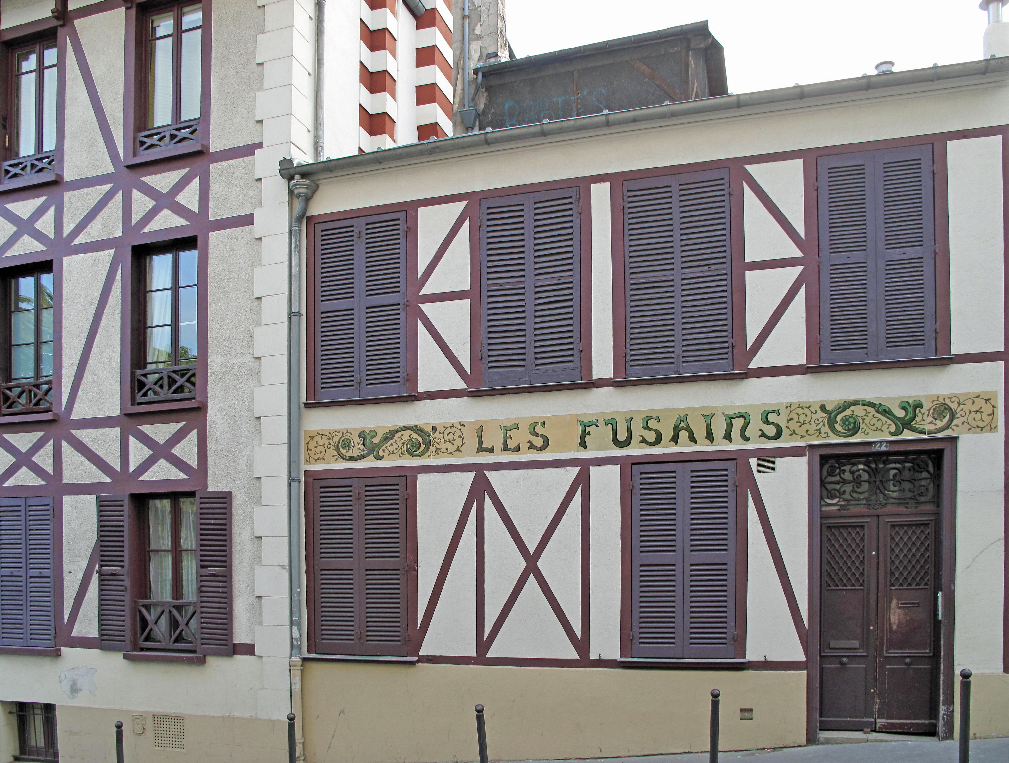 "Les Fusains" : 22, rue Tourlaque, Paris 18th arr. Some French and Catalan painters lived here: Derain settled here in 1906, Bonnard in 1913, Max Ernst in 1925 and Miró in 1927.